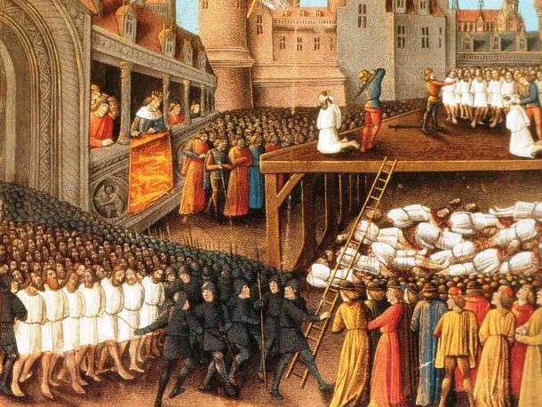 Richard Lionheart watchs on as 3.000 muslim captives are being executed at the city of Acre in 1090